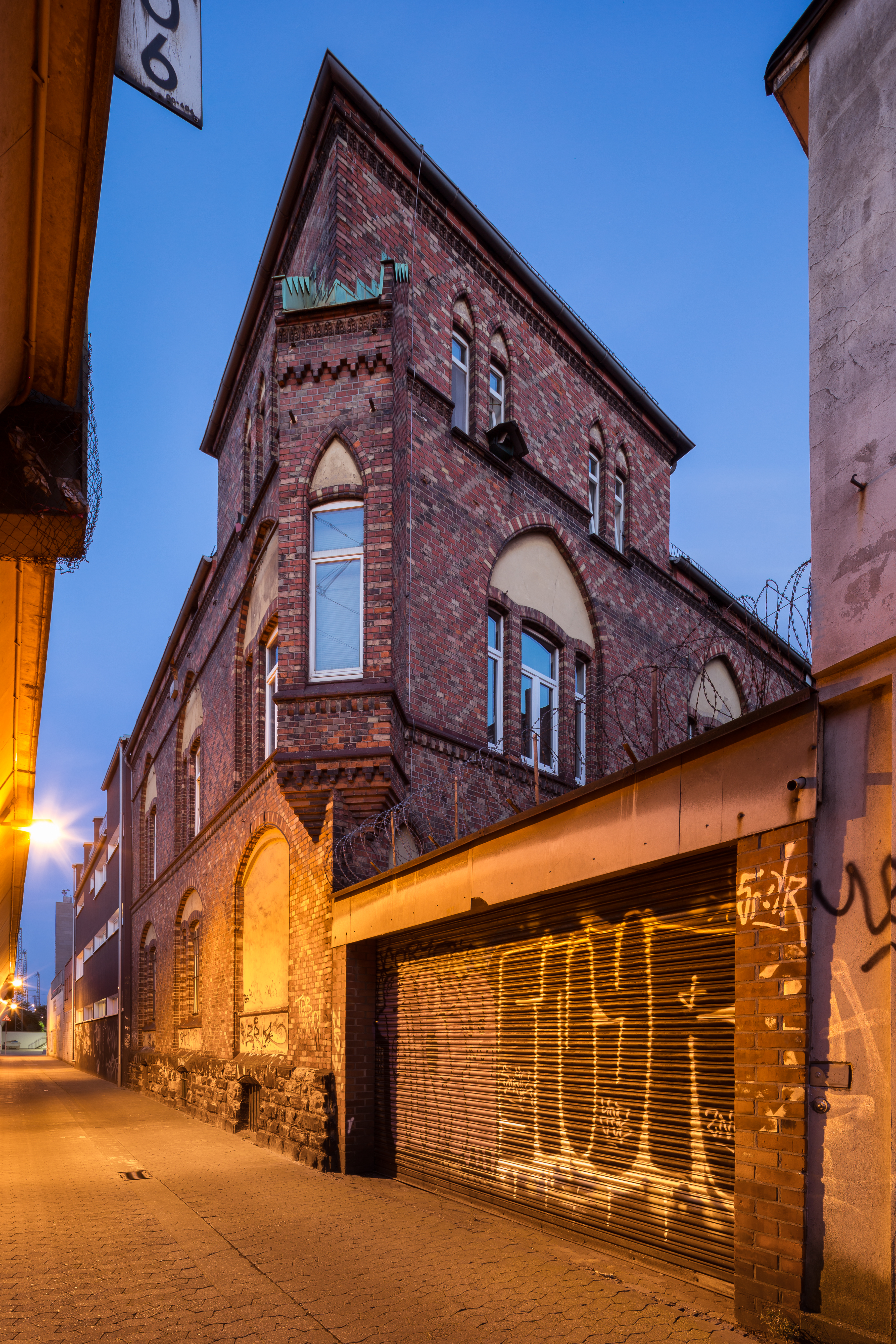 House located at Haasenstrasse in Mitte quarter of Hannover, Germany.